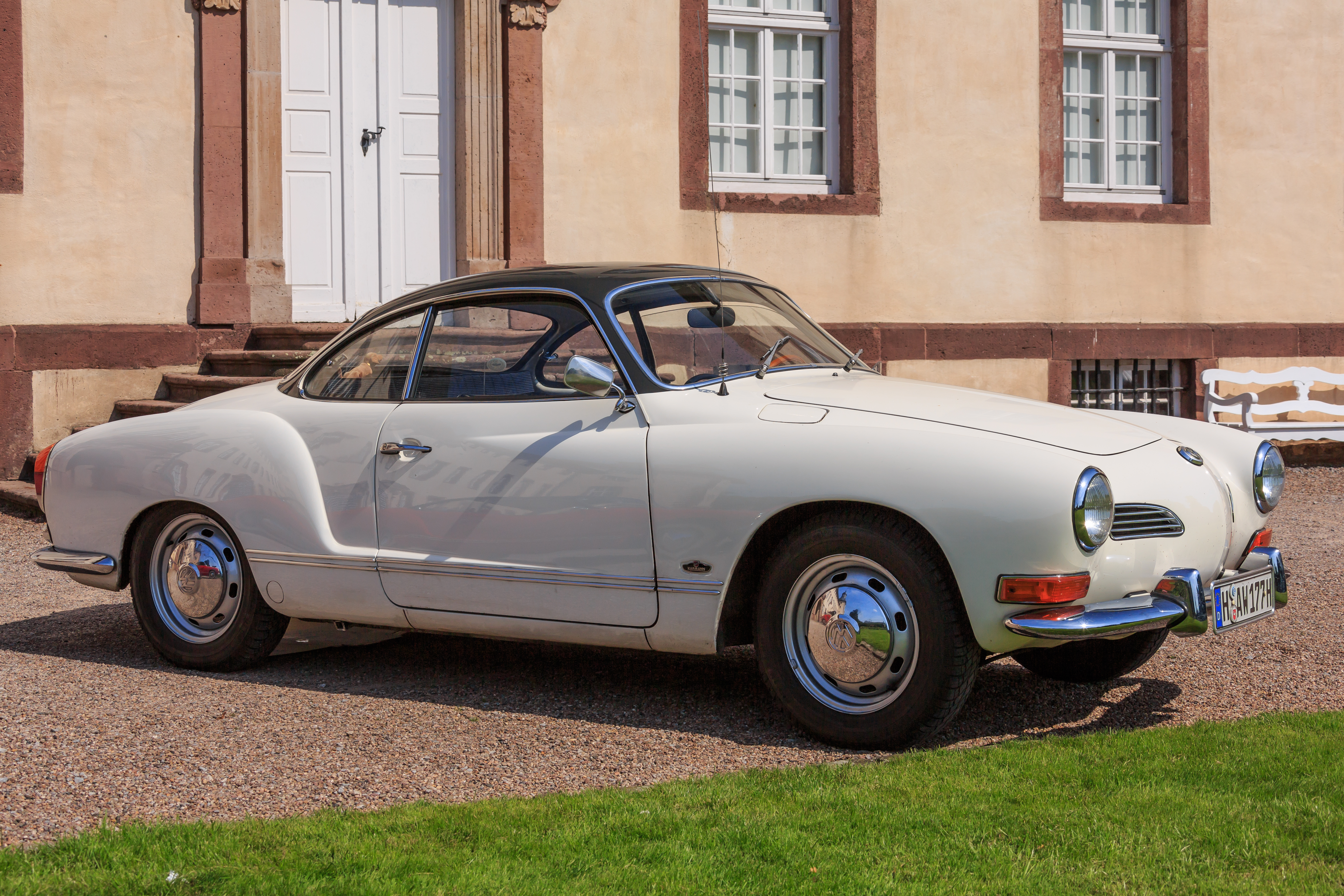 Höxter, Germany: A Volkswagen Karmann Ghia in front of Castle Corvey